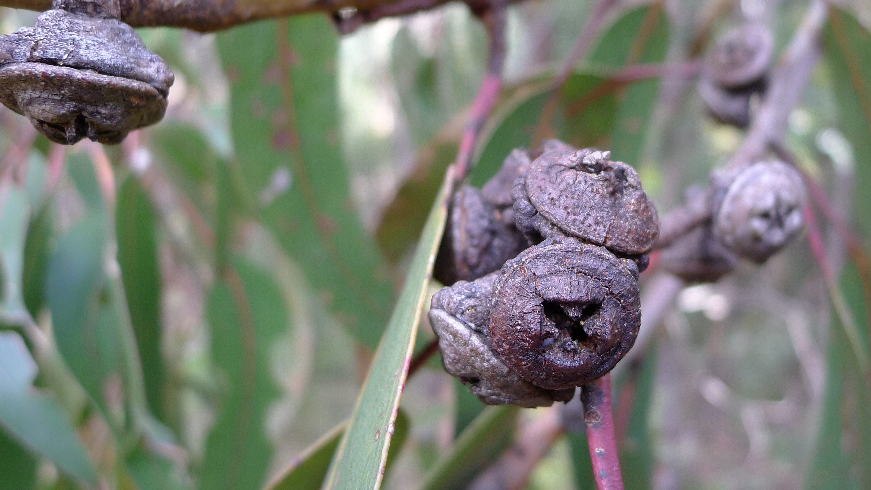 Gippsland Blue Gum, Eucalyptus pseudoglobulus. Waterford Gippsland Victoria Australia, September 2011.